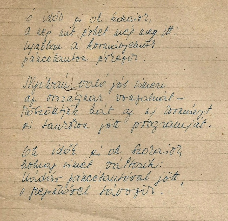 Tamas Pinter's poem